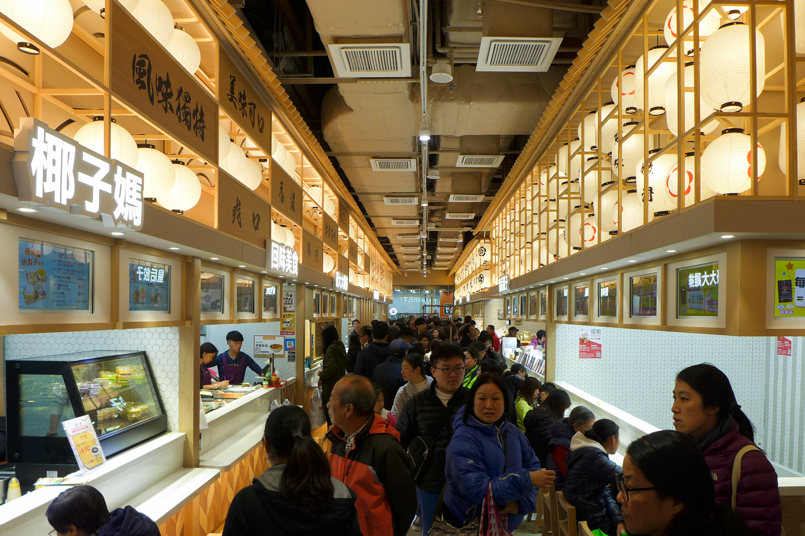 T MARKET Food Street